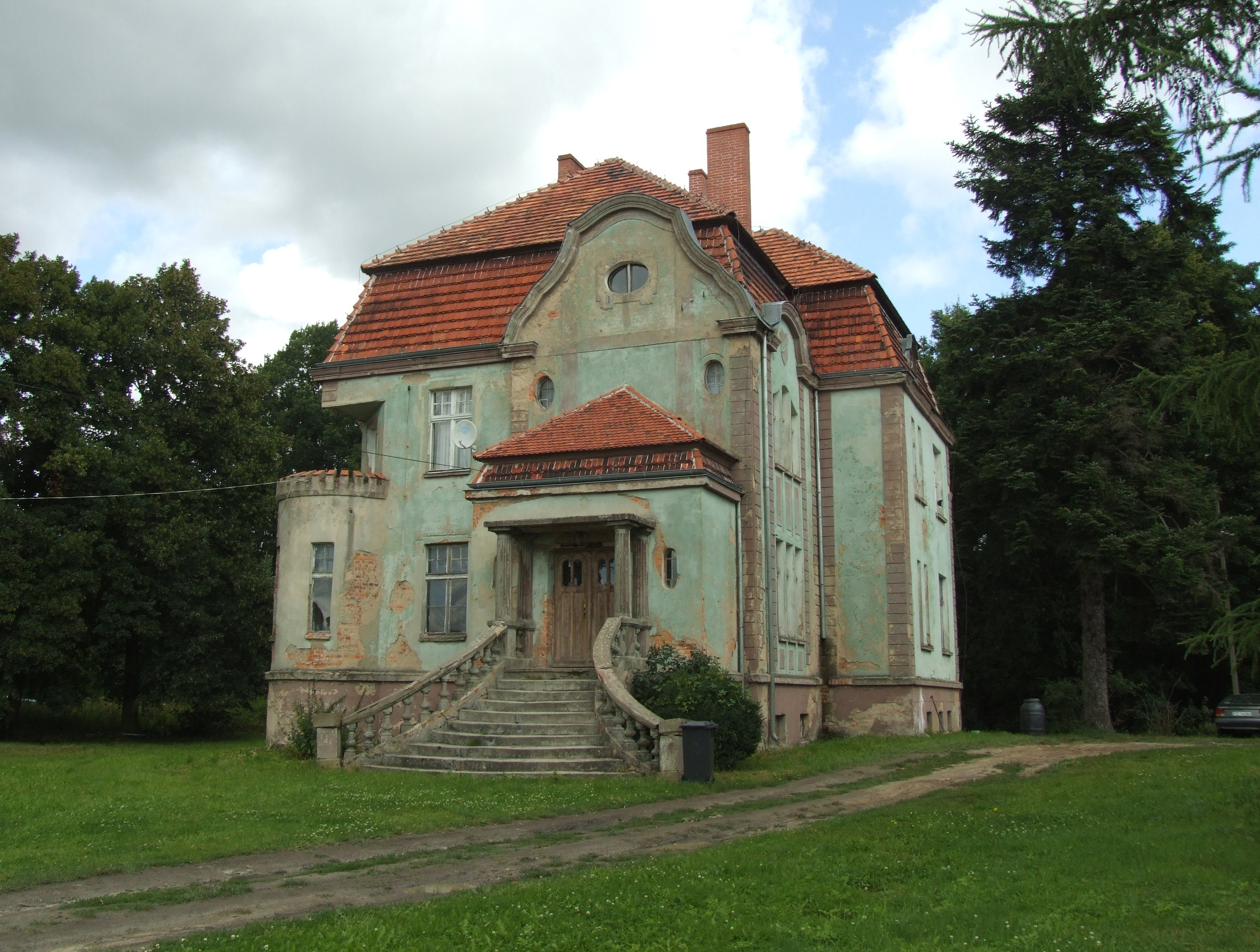 a villa in Cisów, near Kożuchów, Poland